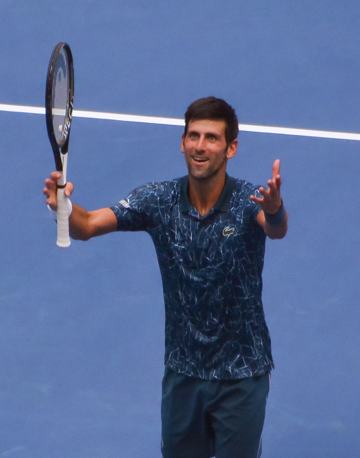 Doing that boob-throwing thing of his. Day 2 of US Open 2018.